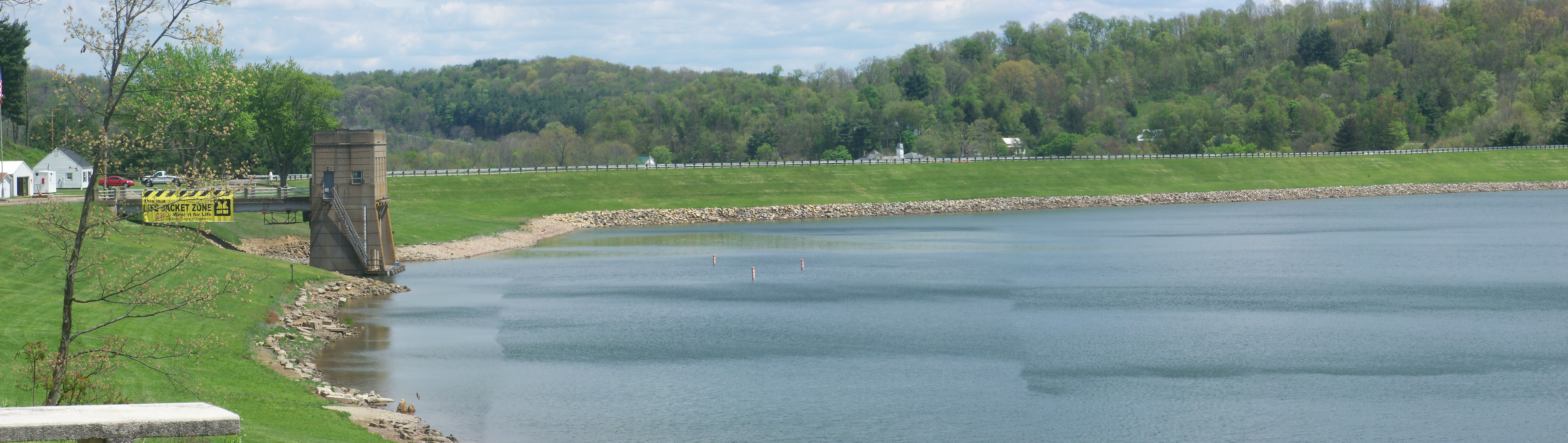 Dam and part of lake at Piedmont Lake in southern Harrison County, Ohio